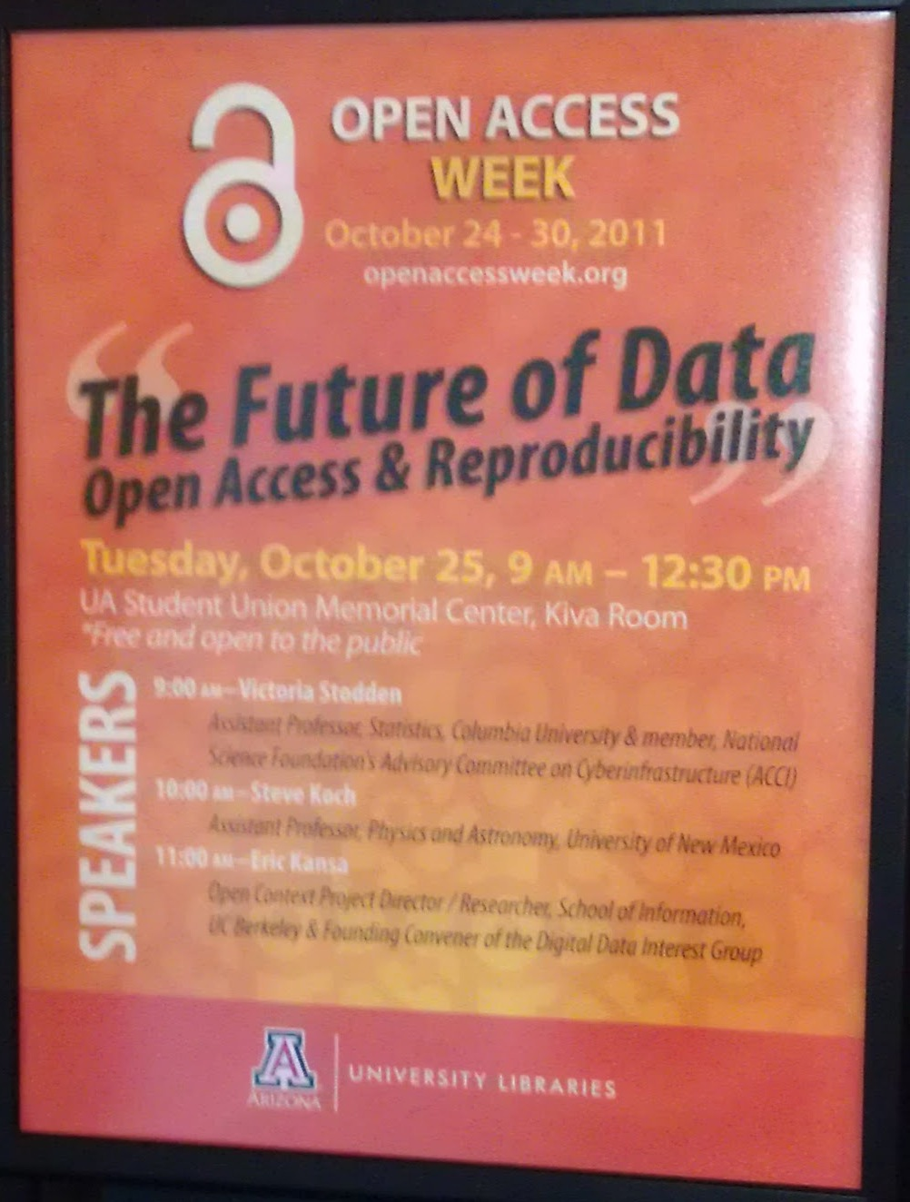 Photo of event poster for University of Arizona Open Access Week symposium, October 25, 2011